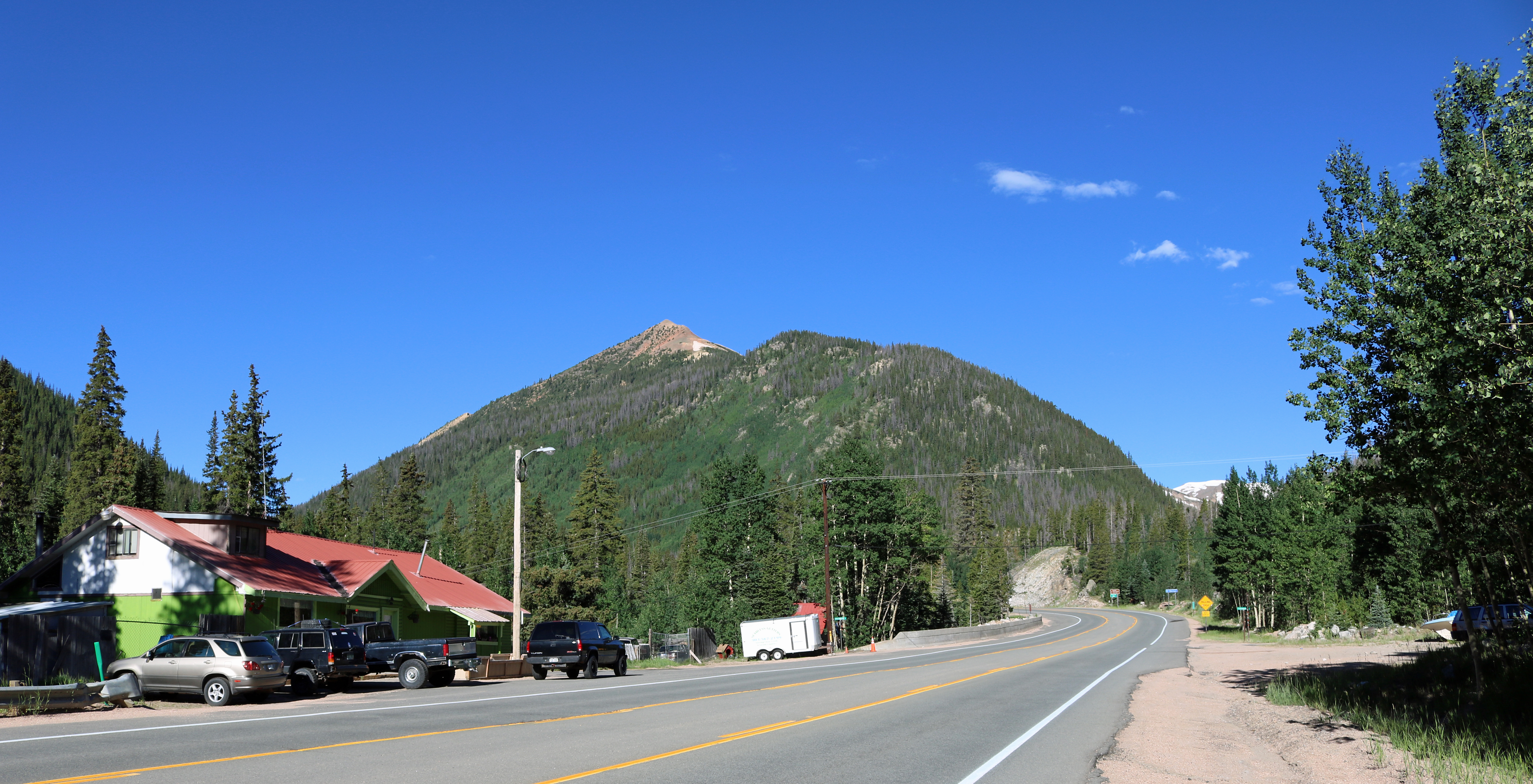 The hamlet of Berthoud Falls, Colorado. The highway is U.S. Route 40 on Berthoud Pass. Red Mountain sits in the background.